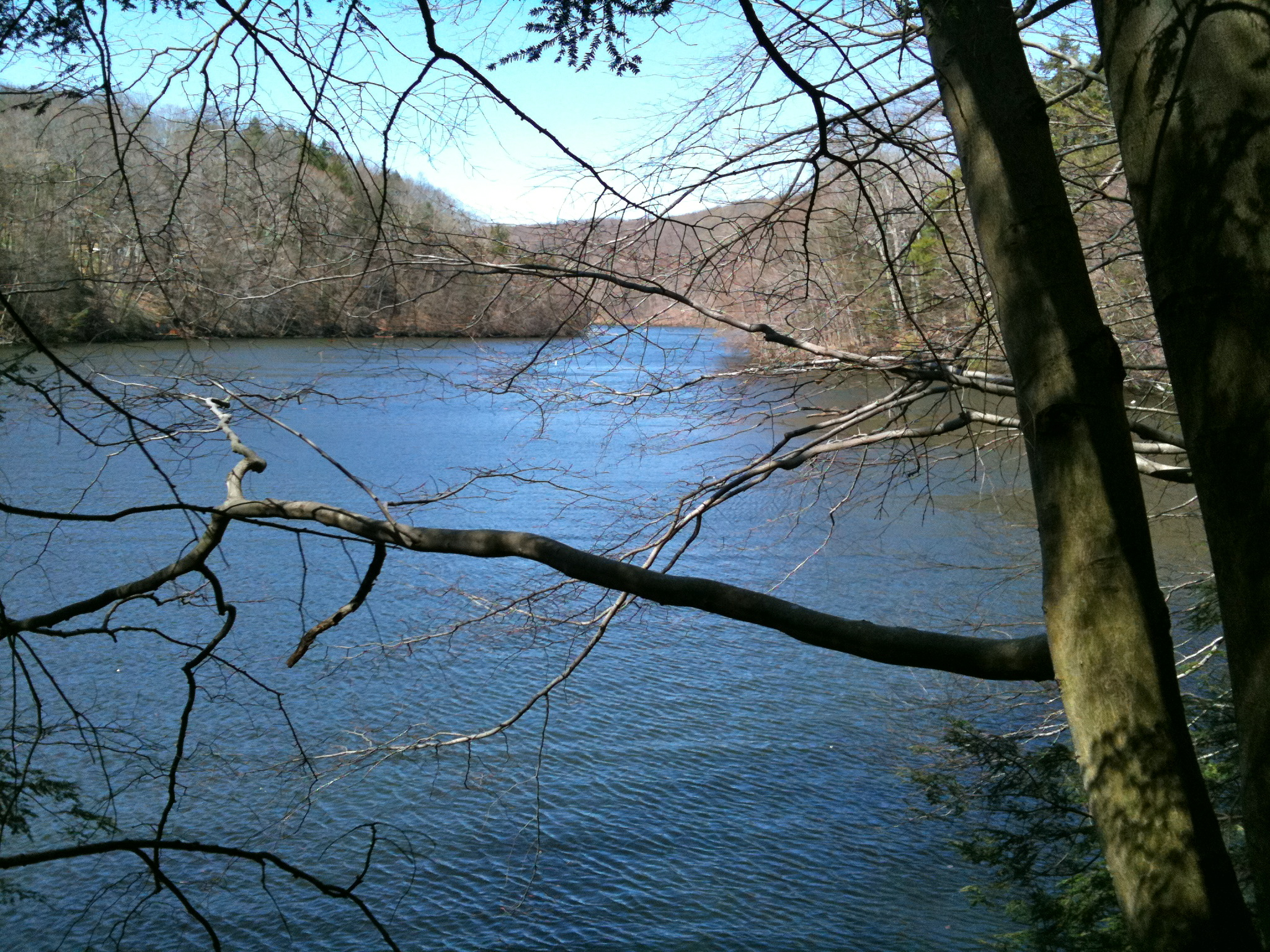 Lillinonah Trail. Blue-Blazed CFPA foot path which circles the upper Paugussett State Forest (and Lake Lillinonah/Housatonic River) in Newtown, CT. Pond Brook inlet. Lillinonah Trail. Blue-Blazed CFPA foot path which circles the upper Paugussett State Forest (and Lake Lillinonah/Housatonic River) in Newtown, CT.